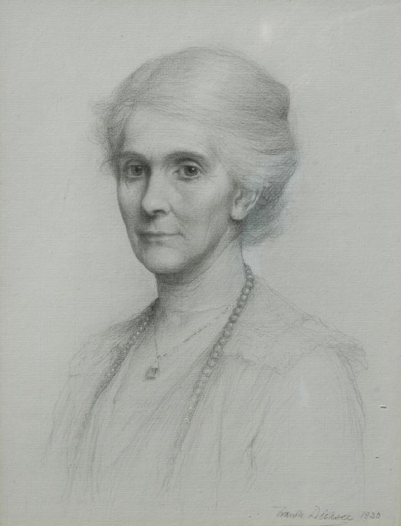 Portrait of the Hon Mrs Edward Stuart Talbot (Lavinia Lyttelton), pencil heightened with white, signed and dated 1920 lower right 43 x 33 cm (17 x 13 in)